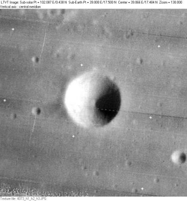 Theophrastus lunar crater - Lunar Orbiter - IV image LO-IV-073H